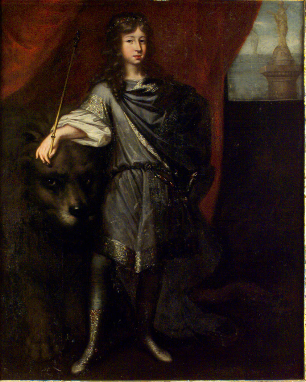 Charles XI of Sweden